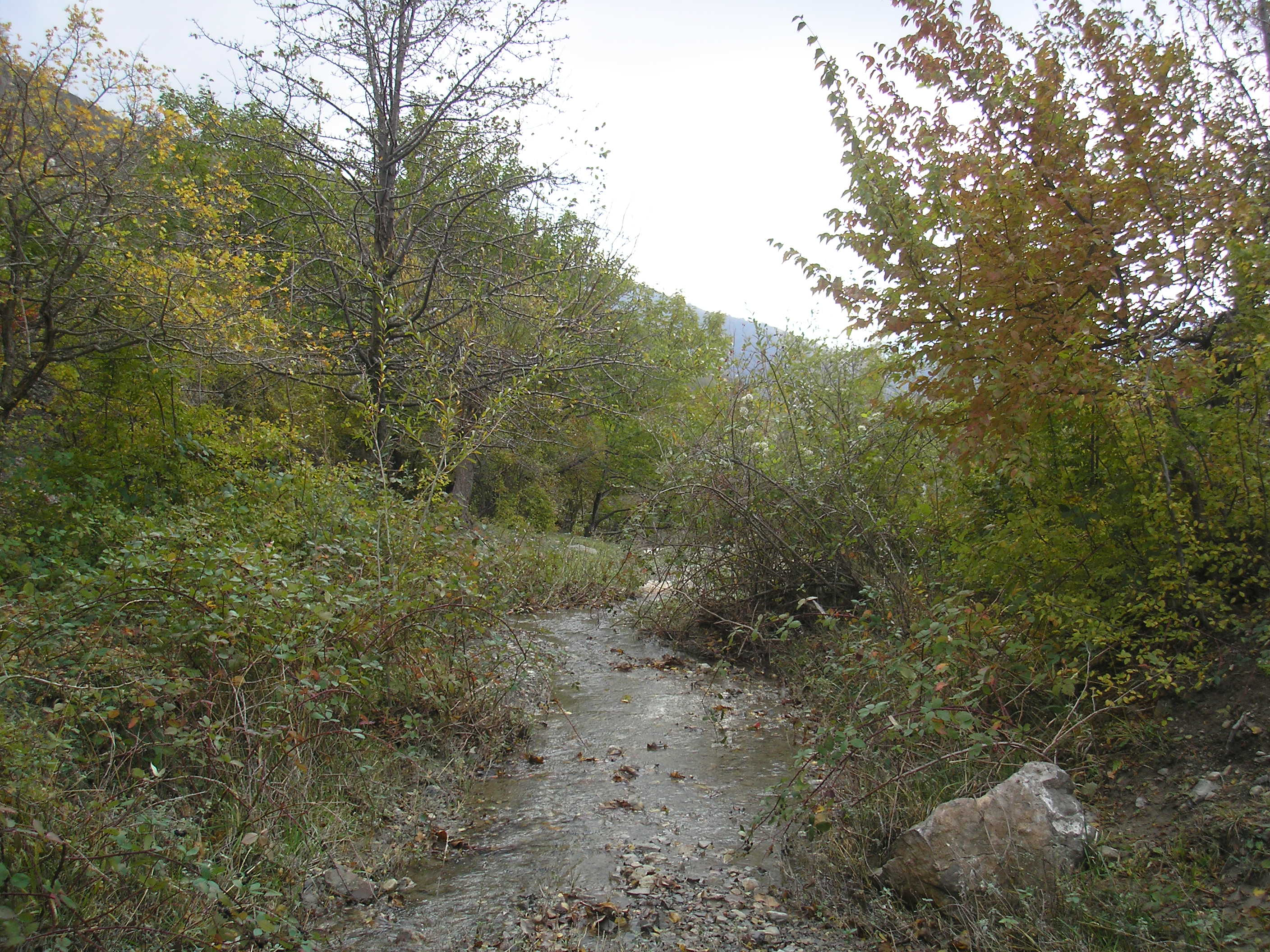 River Arpat Crimea.